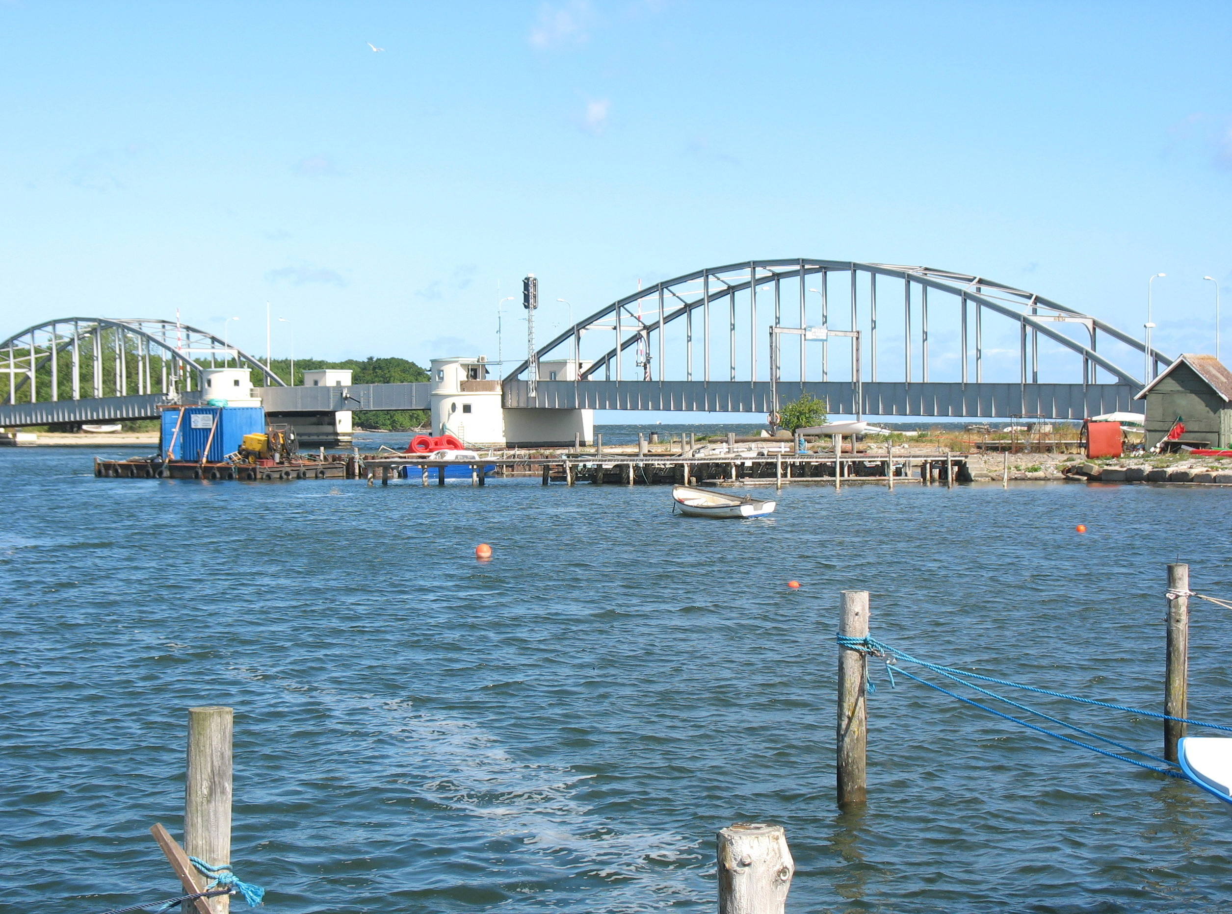 The bridge "Guldborgsundbroen" between the Danish islands Lolland and Falster.